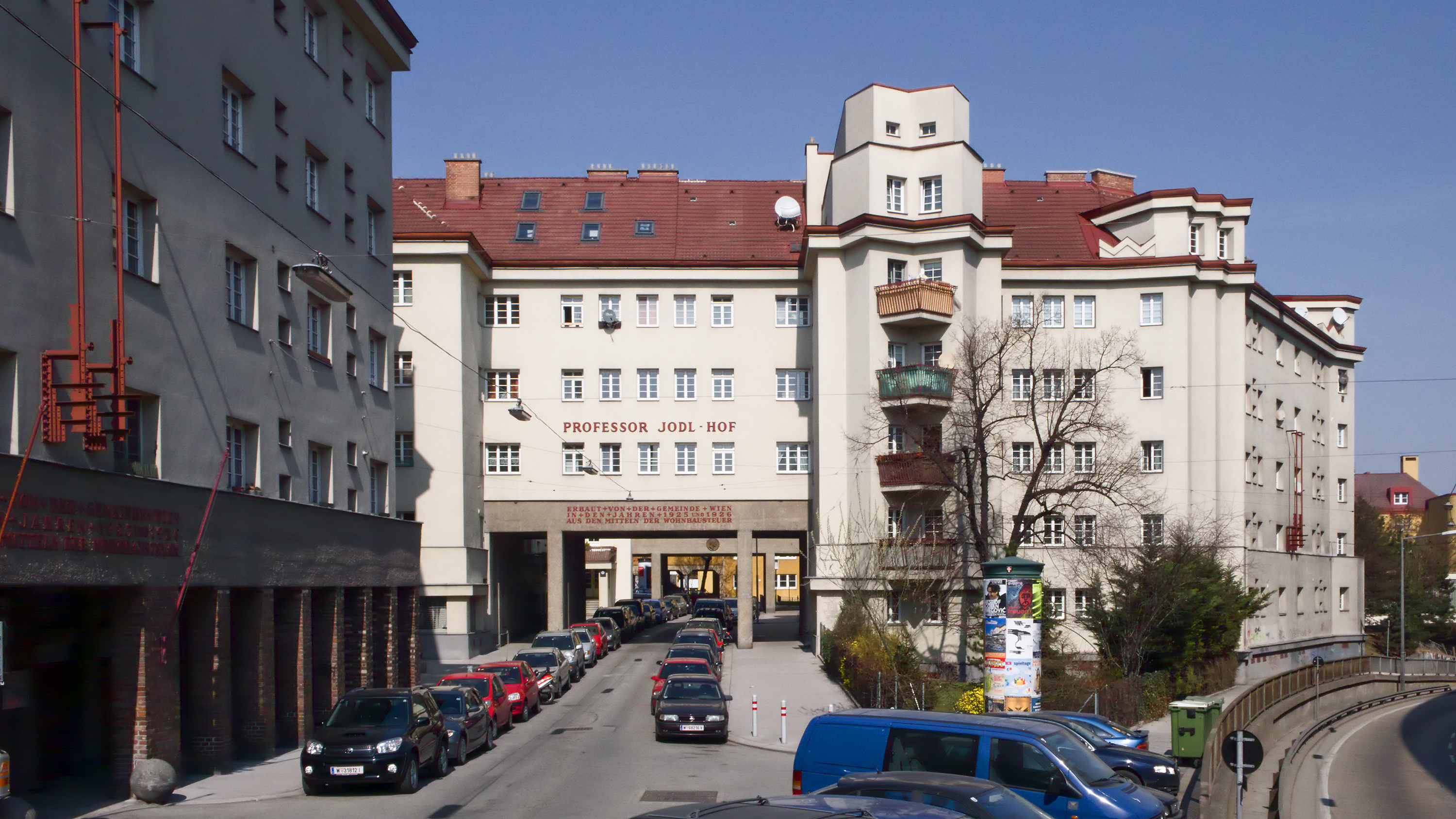 Residential building Professor-Jodl-Hof in Vienna Döbling